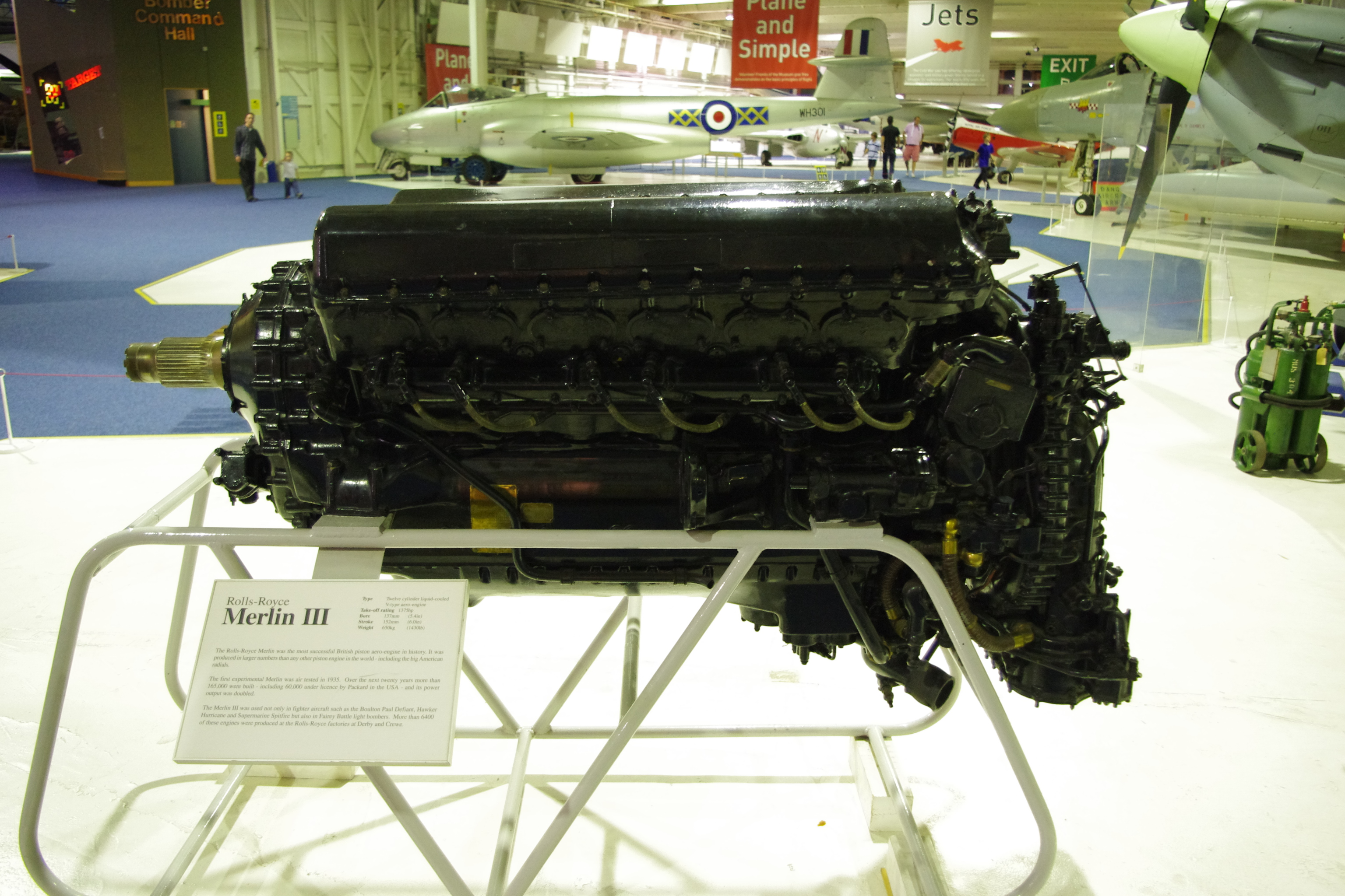 Rolls-Royce Merlin III engine, at the Royal Air Force Museum London.